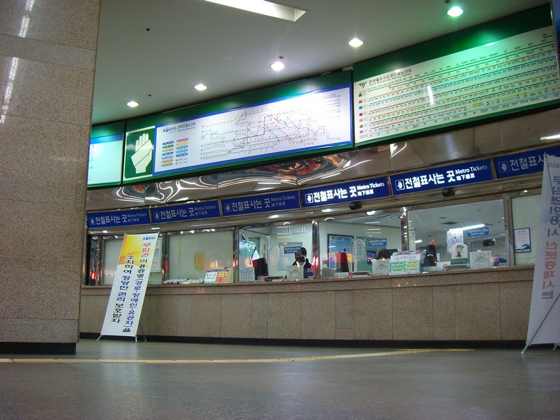 Yeongdeungpo Station